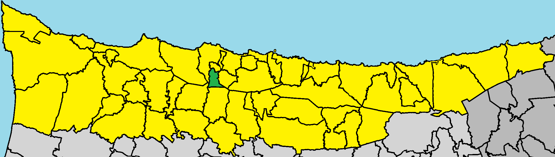 Palaiosofos in Kyrenia District (de jure).